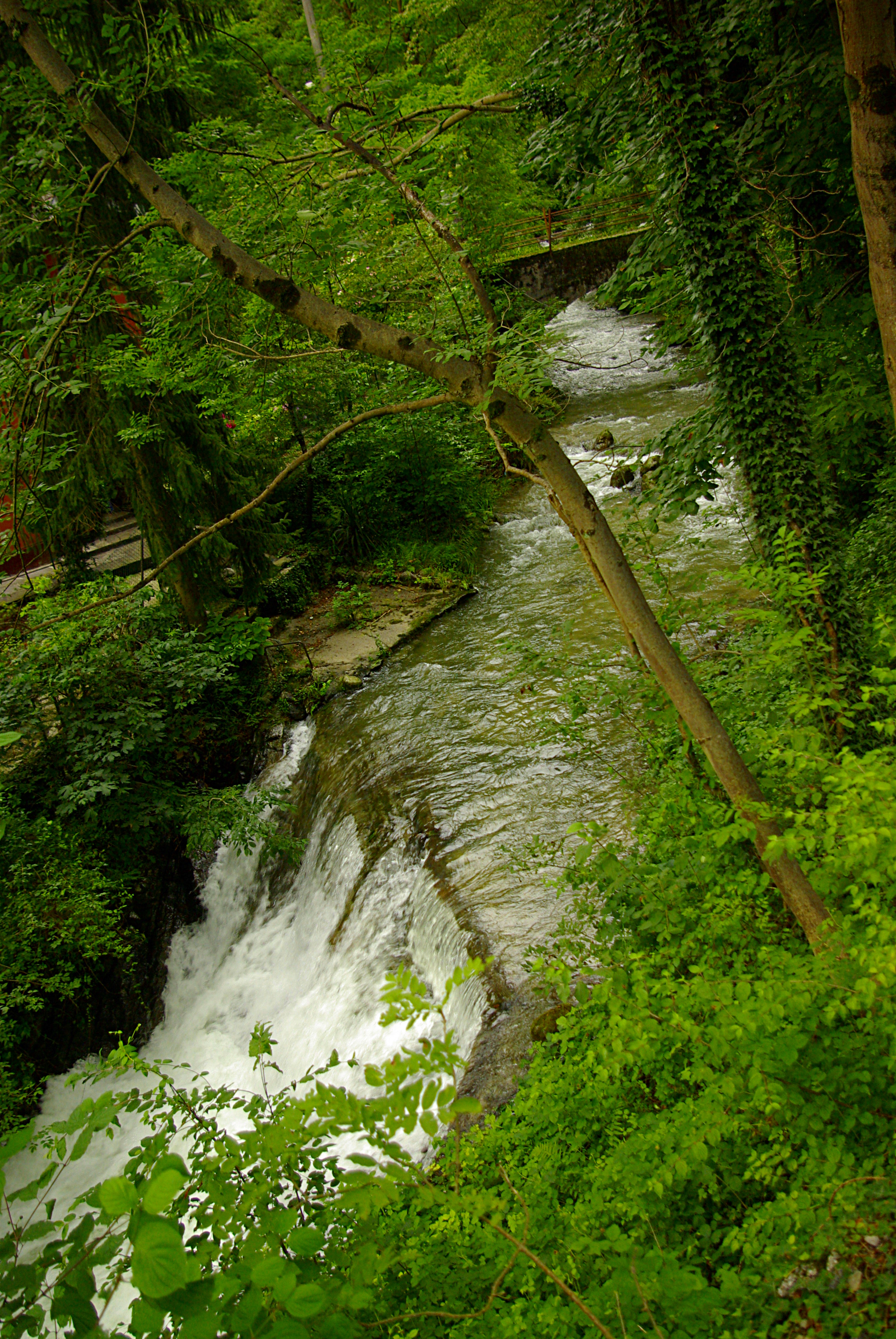 Ravella river at Canzo (Como) Italy